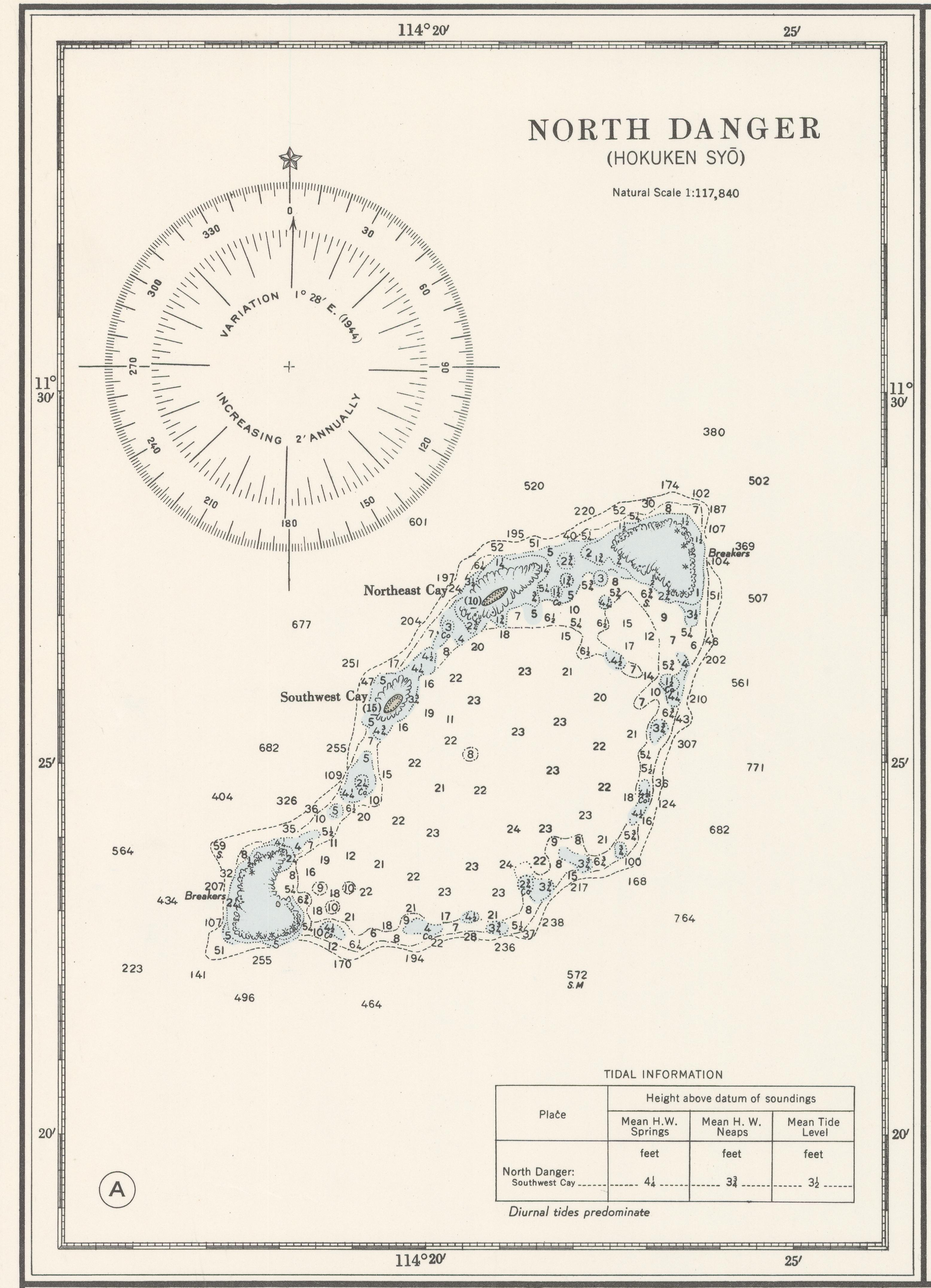 Nautical chart of islands, atolls, and reefs in the South China Sea: North Danger (atoll), Thitu Islands and Reefs (atoll, reef) and Subi Reef, Loita Island and Reefs (atoll), Tizard Bank (atoll)